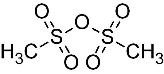 Methanesulfonic anhydride